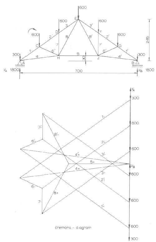 Cremona diagram.